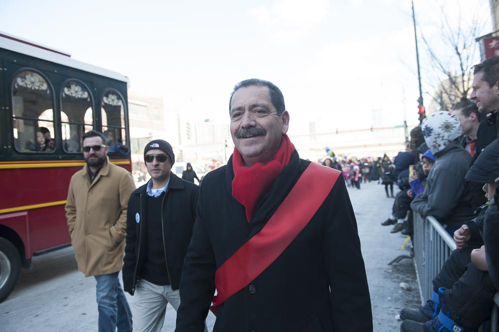 Chuy at the 2015 Lunar New Year Parade